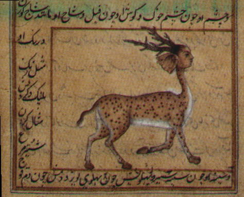 Work representing "Ad Dabba" (the Beast) or "Ad Dabbat ul Ardh" (the Beast of Earth) which is quoted in the Koran.